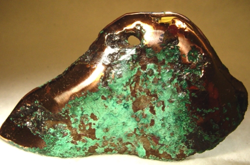 Copper Locality: Keweenaw County, Michigan, USA (Locality at ) A big nugget of floater copper from Michigan, polished to show its super-bright luster, accented by the green oxidized zone in the center. 11.4 x 6.8 x 0.8 cm